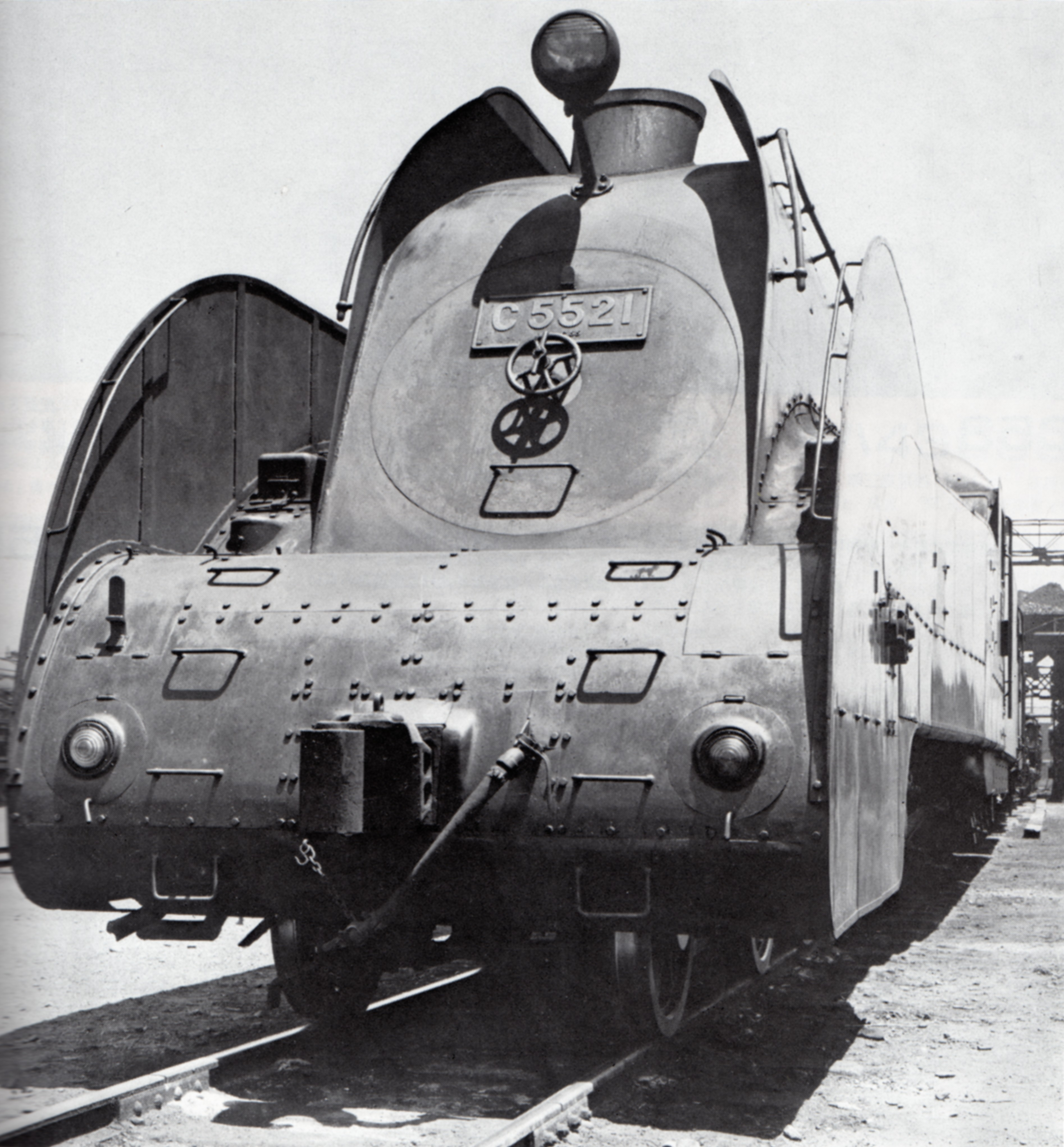 Japanese Governmental Railways type C55 steam locomotive No.21 frontview. Total 21 locos out of type C55 was converted to streamlined style. Photo taken at Miyahara.